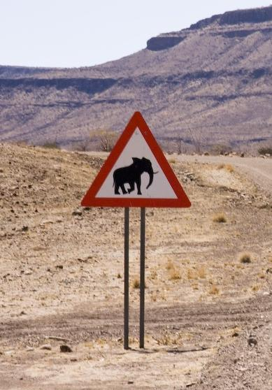 elephants crossing road sign near Kamajab, Namibia